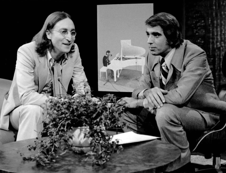 Publicity photo of John Lennon and host Tom Snyder from the television program Tomorrow. Done in 1975, this was the last television interview Lennon gave before his life ended in 1980.